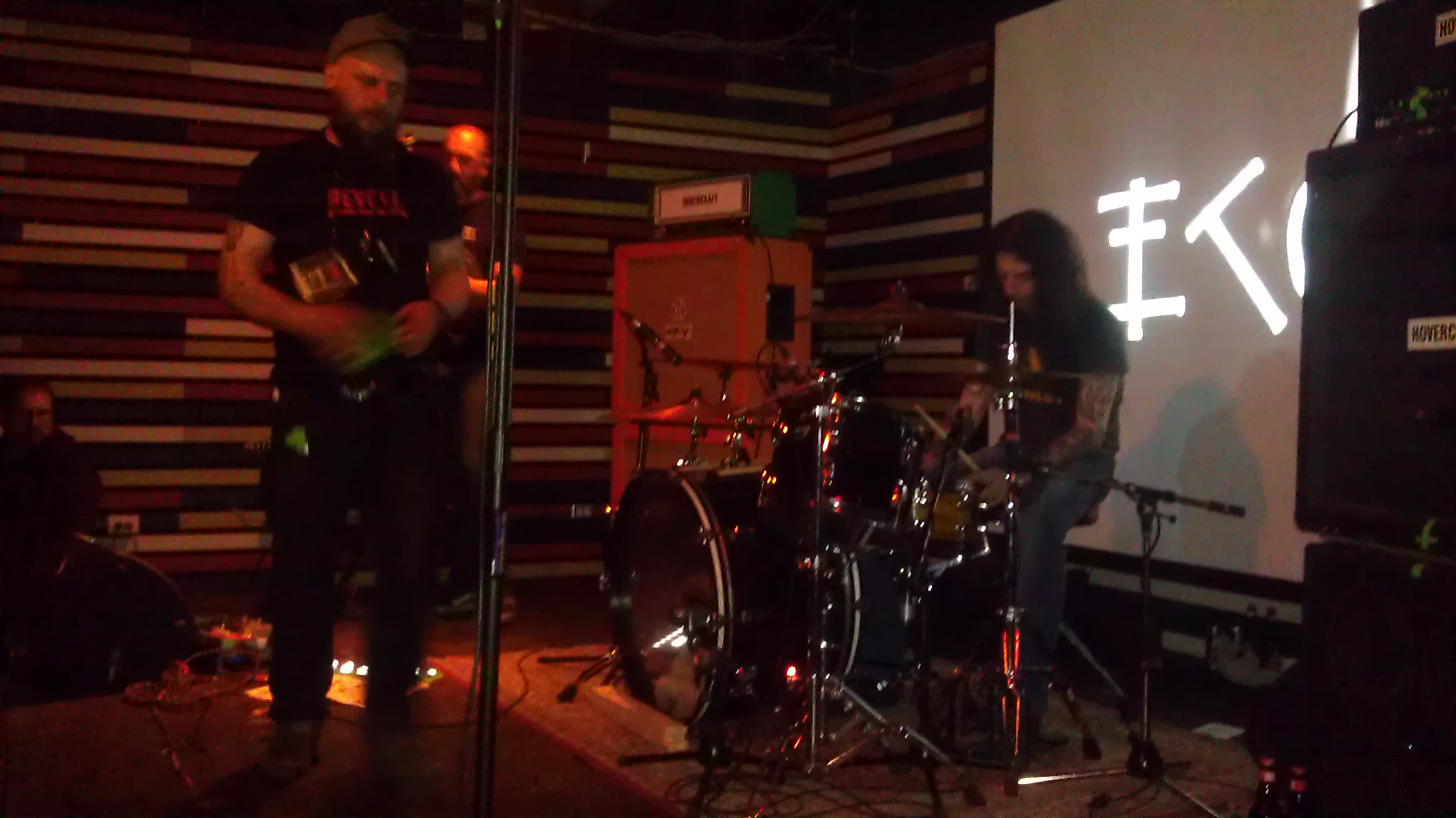 A Ufomammut performance inside the Ritz PDB venue photographed in Montreal, Quebec, Canada.